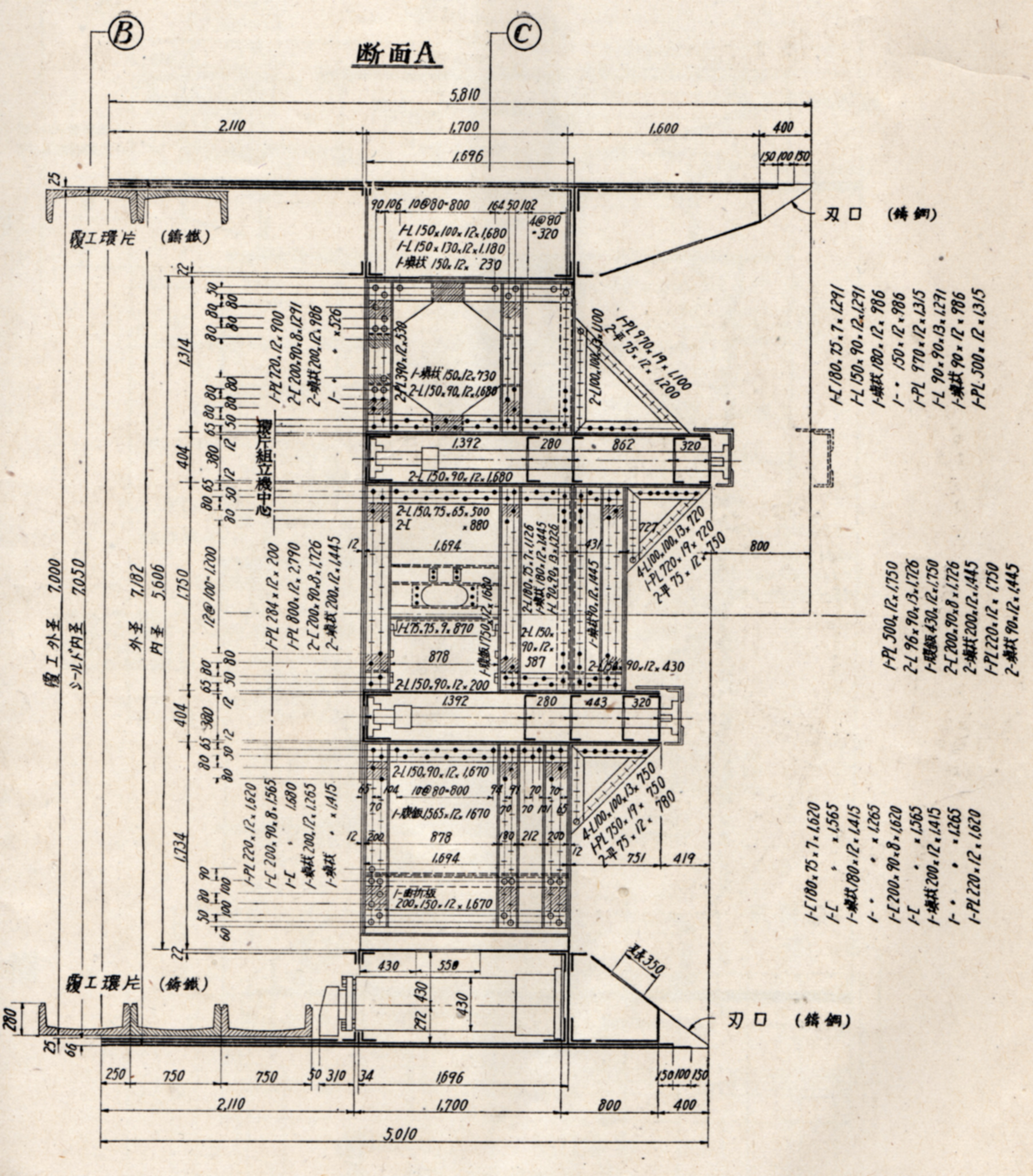 Side view drawing of shield machine for Kammon railway tunnel